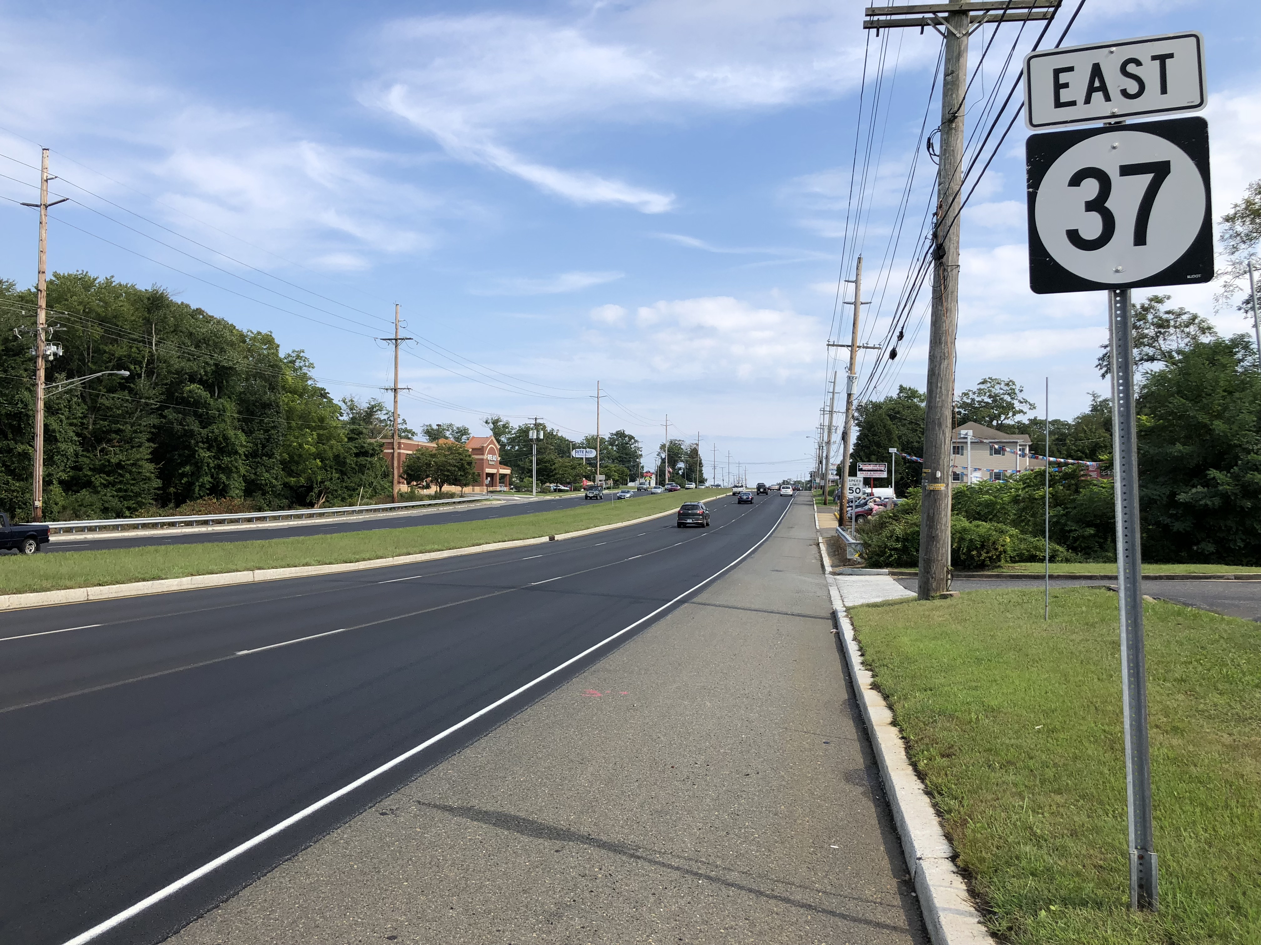 View east along New Jersey State Route 37 just east of Ocean County Route 627 (Vaughn Avenue/West End Avenue) along the border of Toms River Township and Island Heights in Ocean County, New Jersey